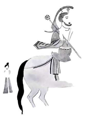 Entry of Jesus Christ into Jerusalem, with a female figure dressing in the T'ang dynasty costume. Line drawing copy of a mural fragment from the Nestorian Temple in Chotscho, Sinkiang, 683-770 A.D.